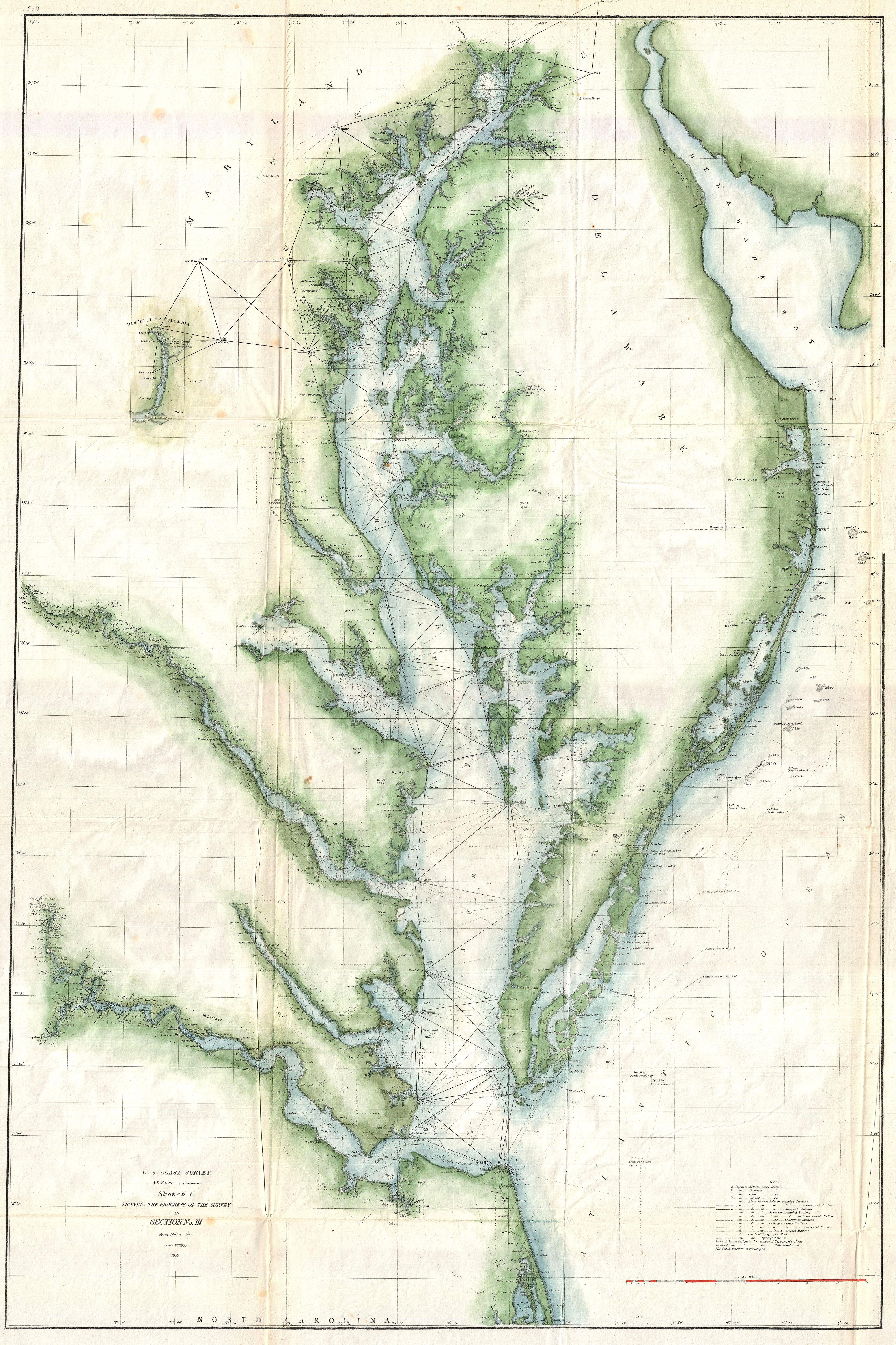 This is an exceptional example of the 1859 U.S. Coast Survey's progress chart of the Chesapeake Bay. The map covers from the mouth of the Susquehanna River southwards as far as Cape Henry and Norfolk. This chart includes both the Chesapeake Bay and Delaware Bay in full, as well as small portions of the Potomac River, Rappahannock River, York River, James River, Patapsco River, and Patuxent River. Washington D.C., Cape May, Charleston, Baltimore, Annapolis, Chestertown, Easton, Cambridge and Norfolk, are identified. Triangulation points are noted throughout the region as well as all major islands, rivers, and inlets. Prepared under the supervision of A. D. Bache 1857 Superintendent's Report .